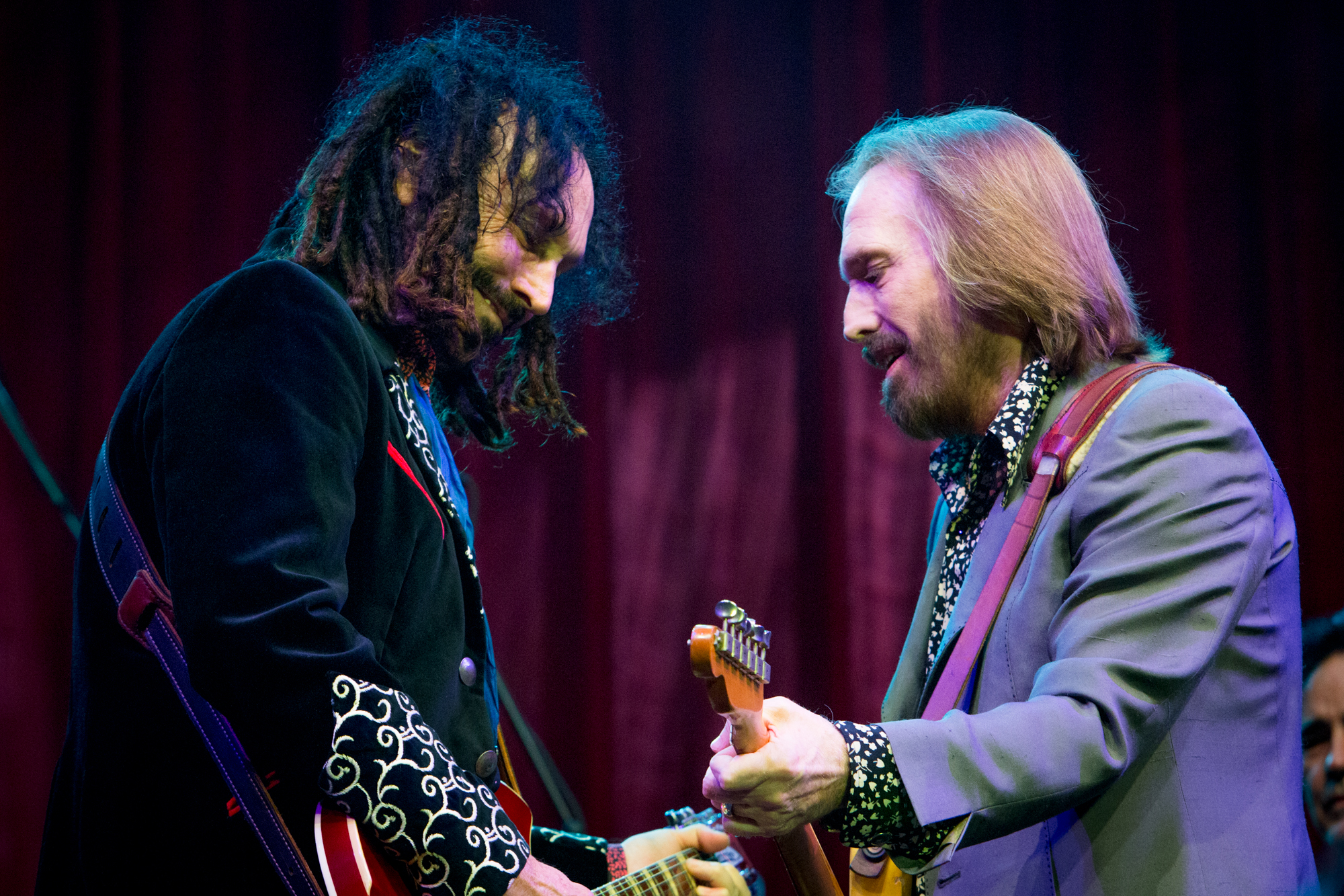 Tom Petty and the Heartbreakers performing at the Bonnaroo Music and Arts Festival in Manchester, Tennessee.